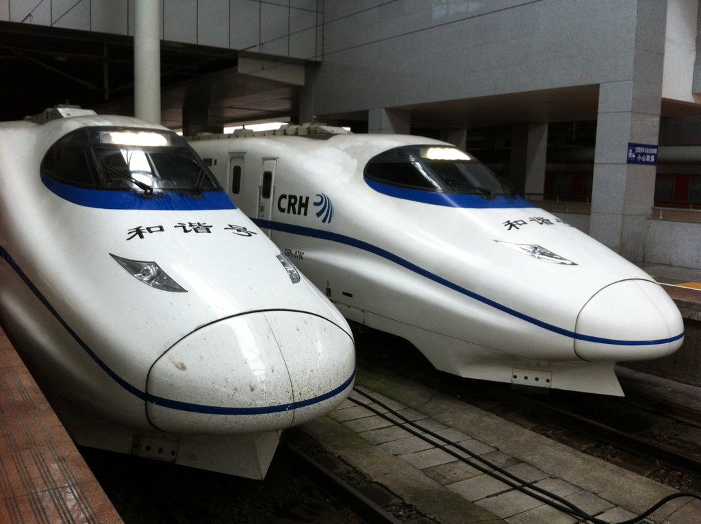 CRH2 (base on E2-1000 Series Shinkansen)